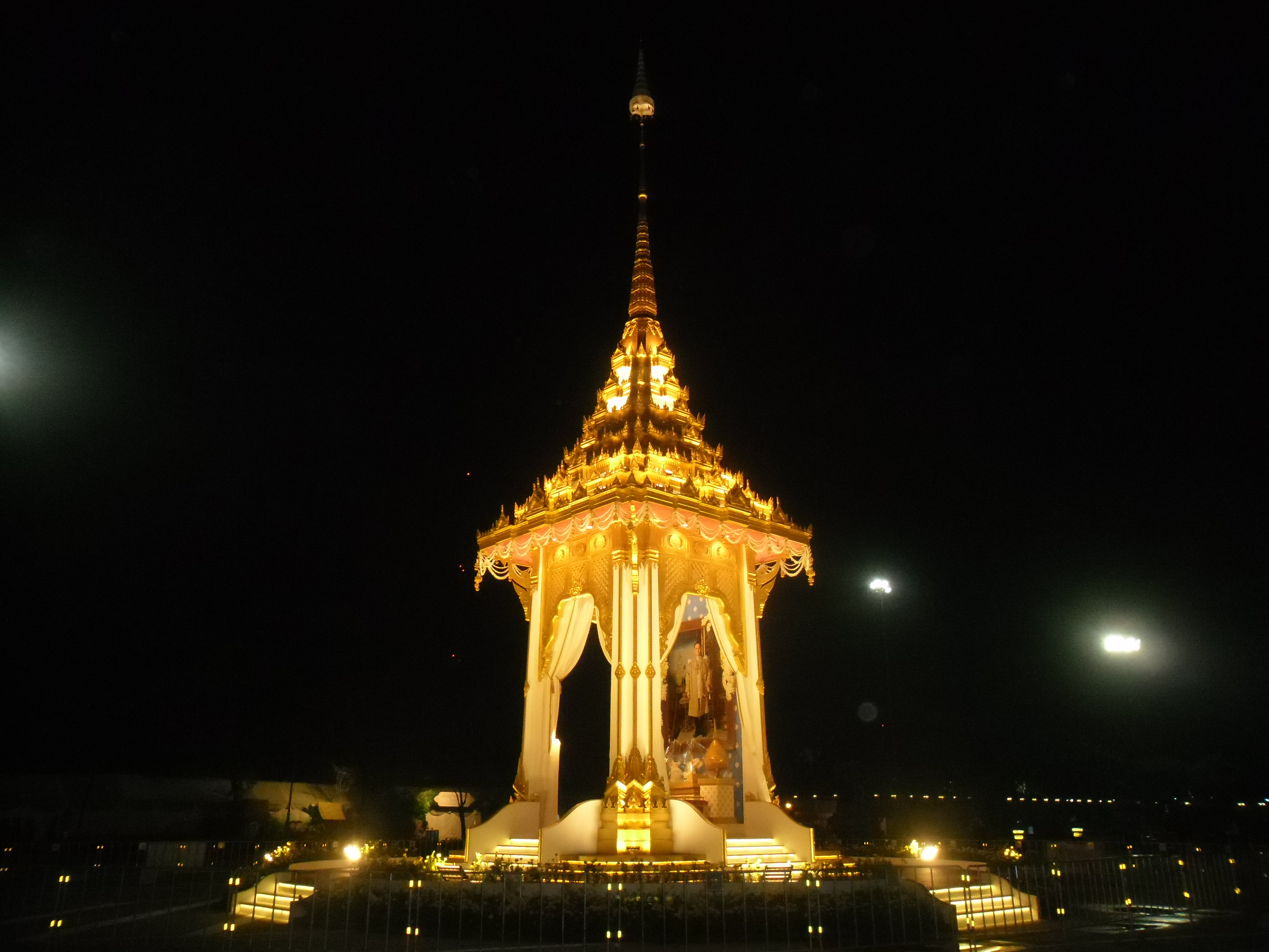 Royal crematorium replica site for the royal cremation ceremony of HM the late King of Thailand at the Royal Plaza, Dusit Palace, Bangkok.